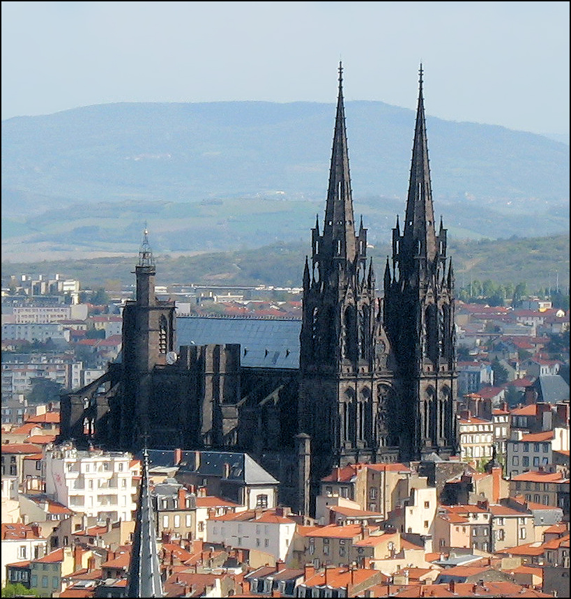 Clermont-Ferrand Cathedral